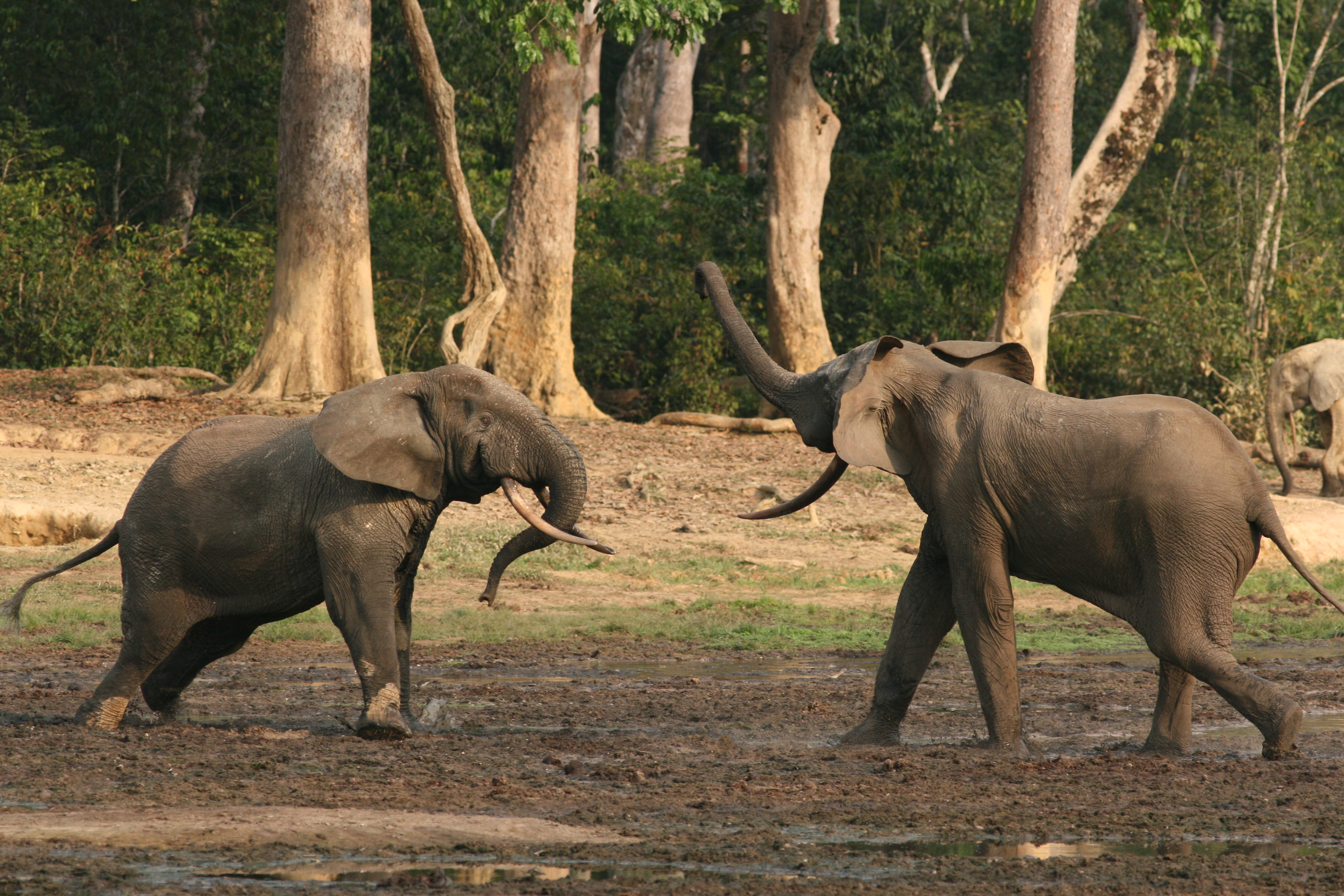 Elephant males throughout their lives challenge one another to establish dominance. Credit: Richard Ruggiero/USFWS